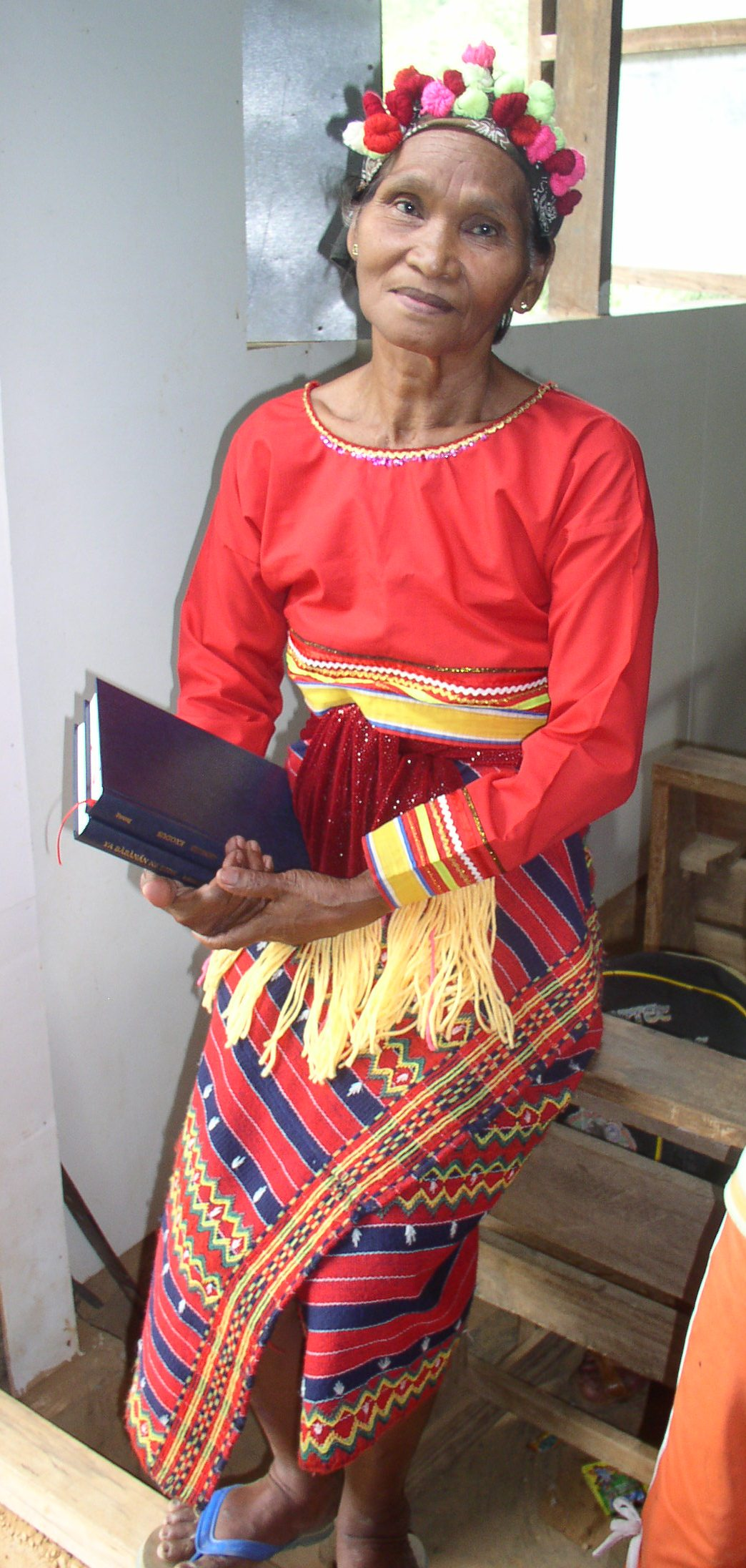 Clarisse Sobiono - An Isnag (Isneg) Woman wearing traditional clothing, having just performed a traditional dance.